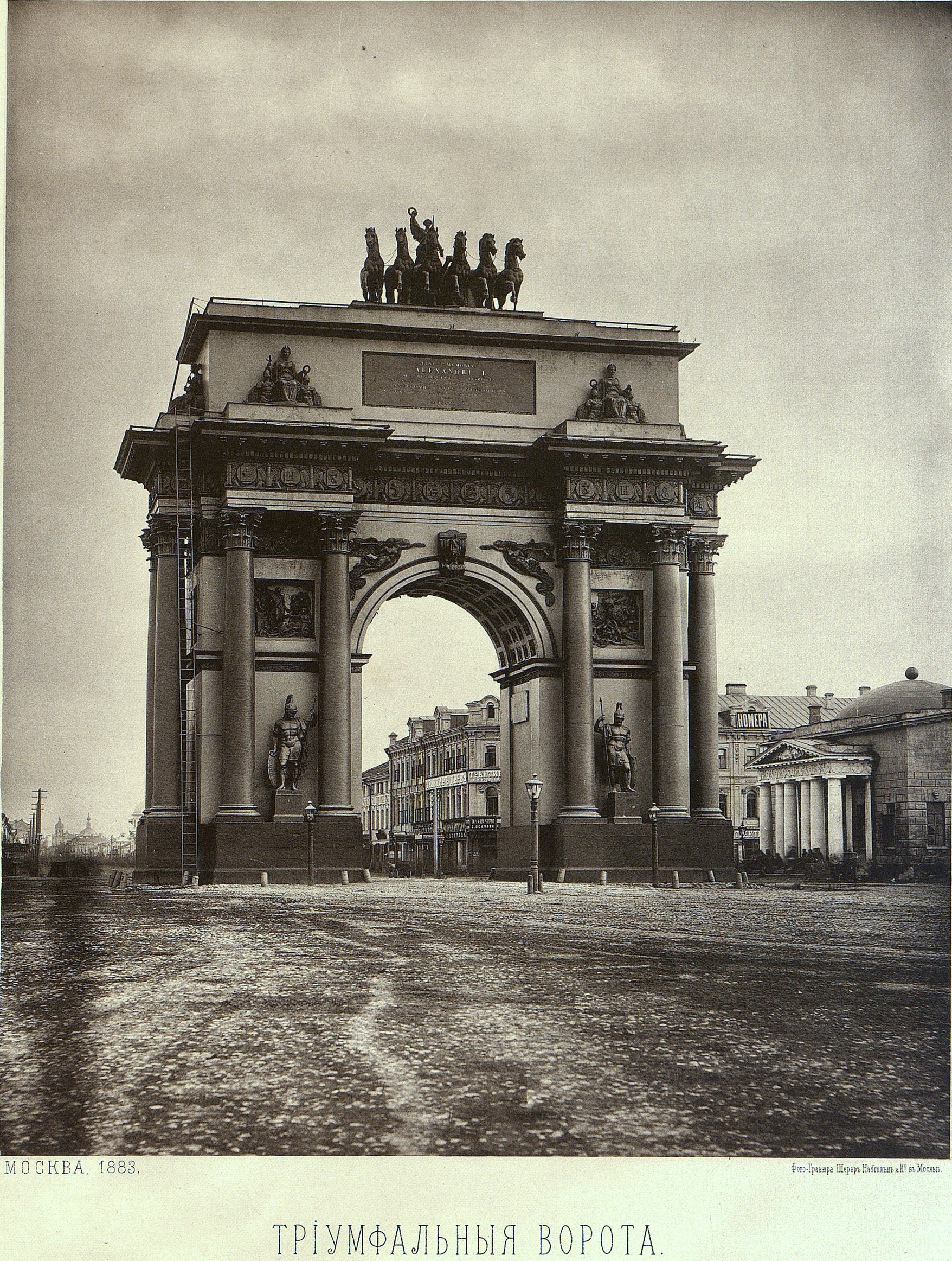 Plate 81. Triumph Gates, Moscow.